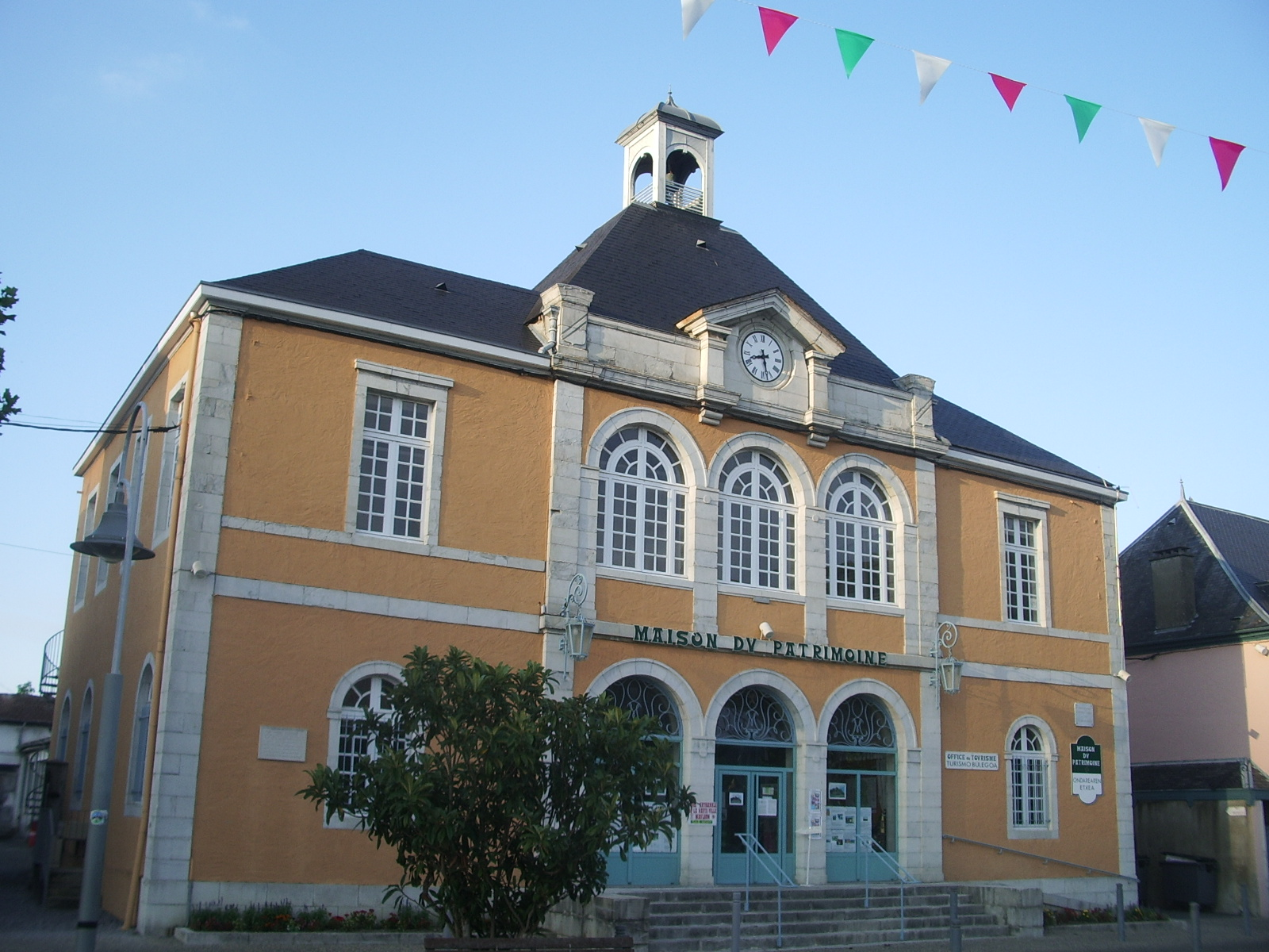 House of Heritage, Maule, Soule